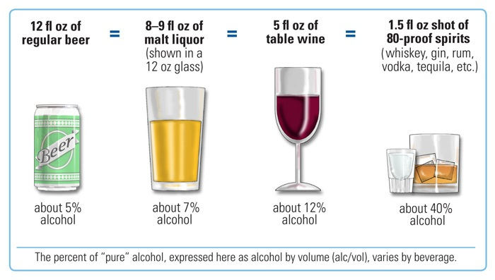 A graphic showing the size of United States standard drinks of different alcoholic beverages